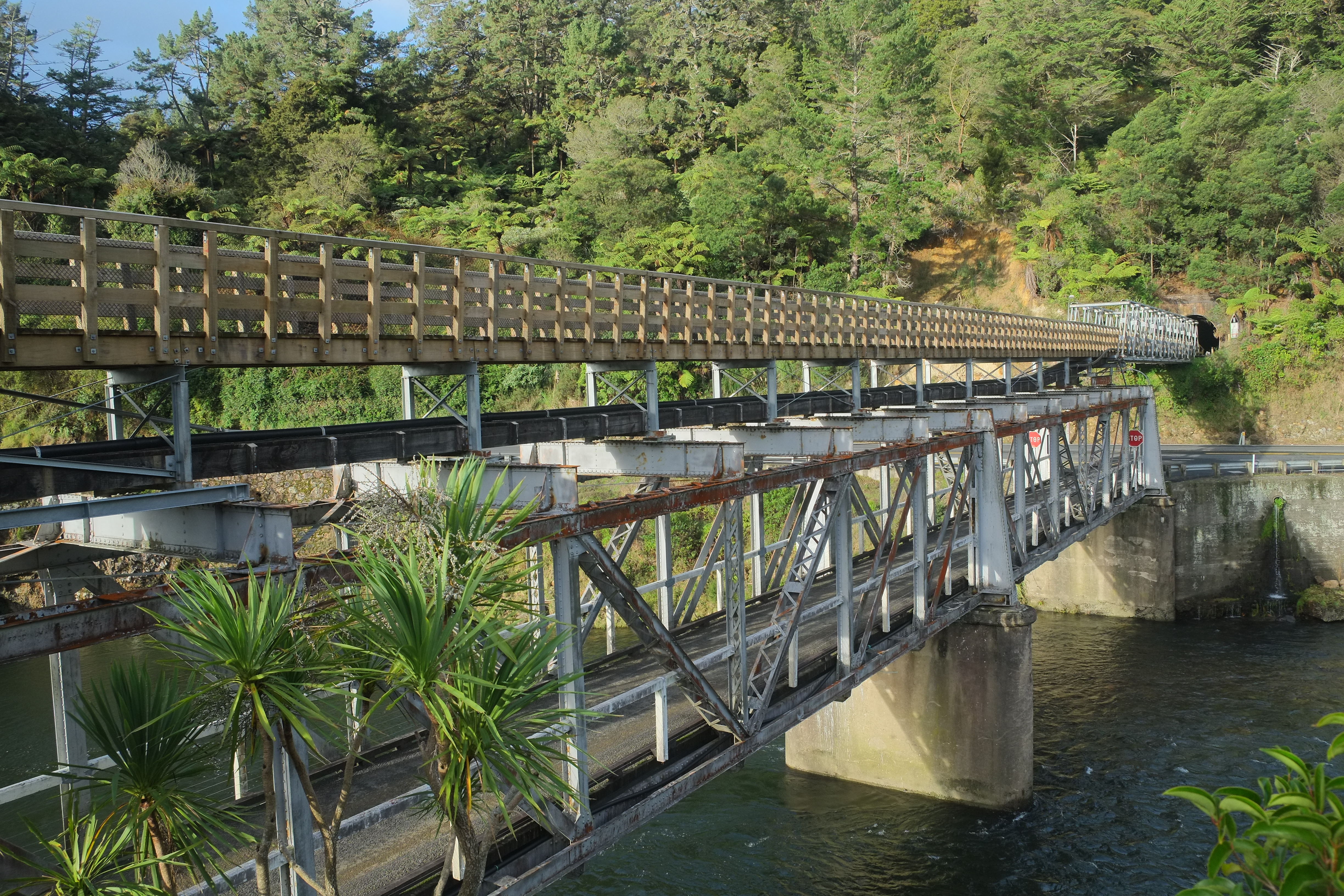 Double-deck Western Portal road-rail bridge over Ohinemuri River at Karangahake